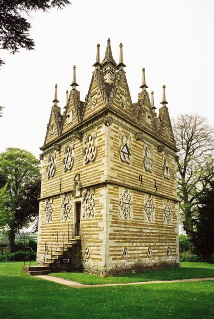 Rushton Triangular Lodge, Northamptonshire, England. Everything here has to do with the number 3. The building is 3-sided, each with 3 windows and 3 gables (triangular of course), and an inscription of 33 letters measuring 33 feet in length. It is a 3-storey building and is topped by a 3-sided chimney. It was built by a man with a name suggesting the number 3 – Sir Thomas Tresham – between 28 July 1594 and 29 September 1597 and it symbolises the Holy Trinity. Tresham's coat of arms consists of three trefoils.